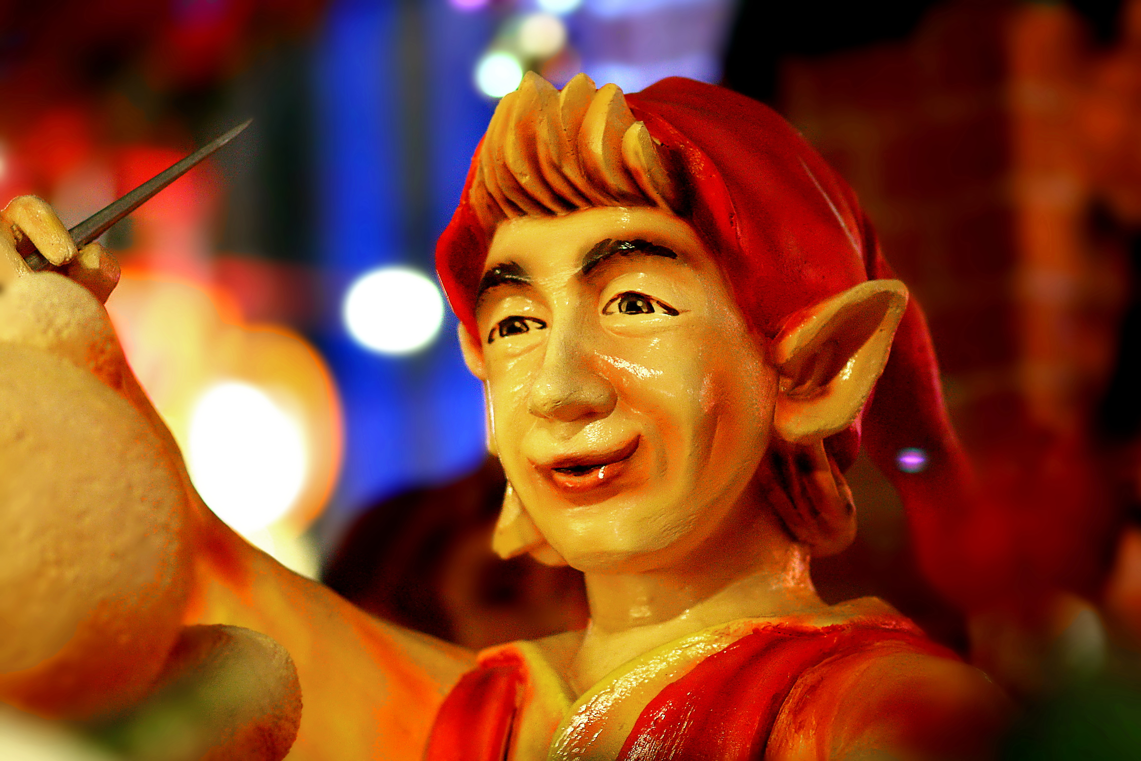 I dont think they should let elves hold sharp objects. Reminds me of Haw Par Villa